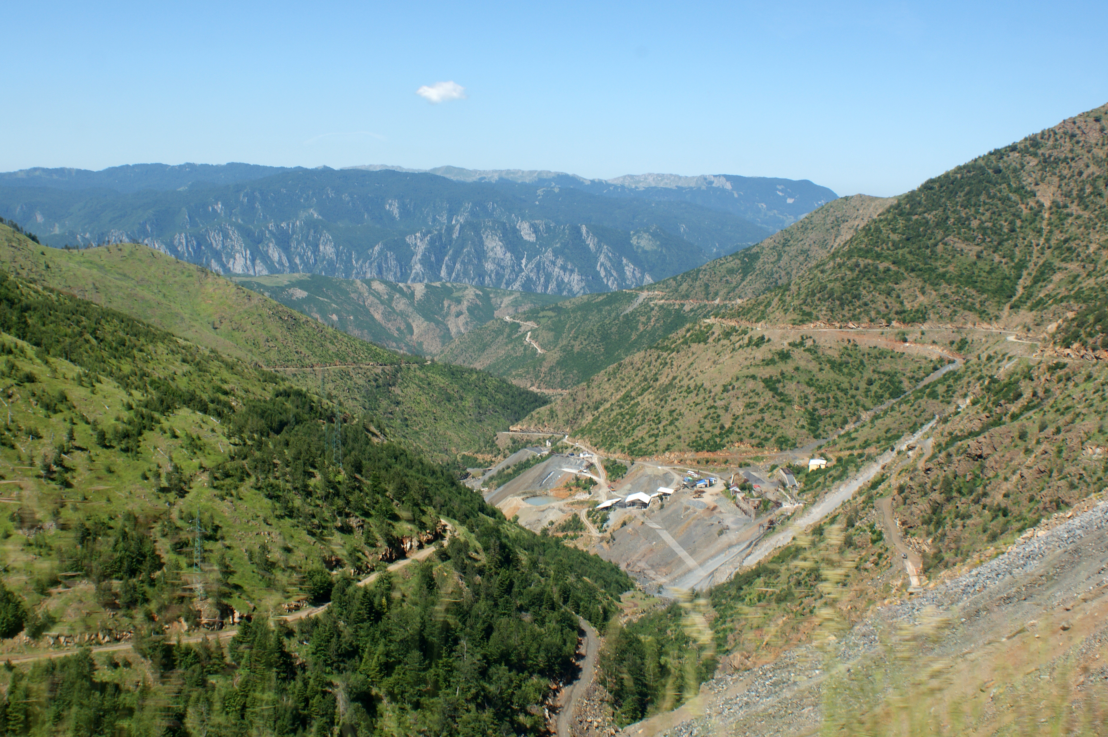 Mining in Martanesh area, Albania